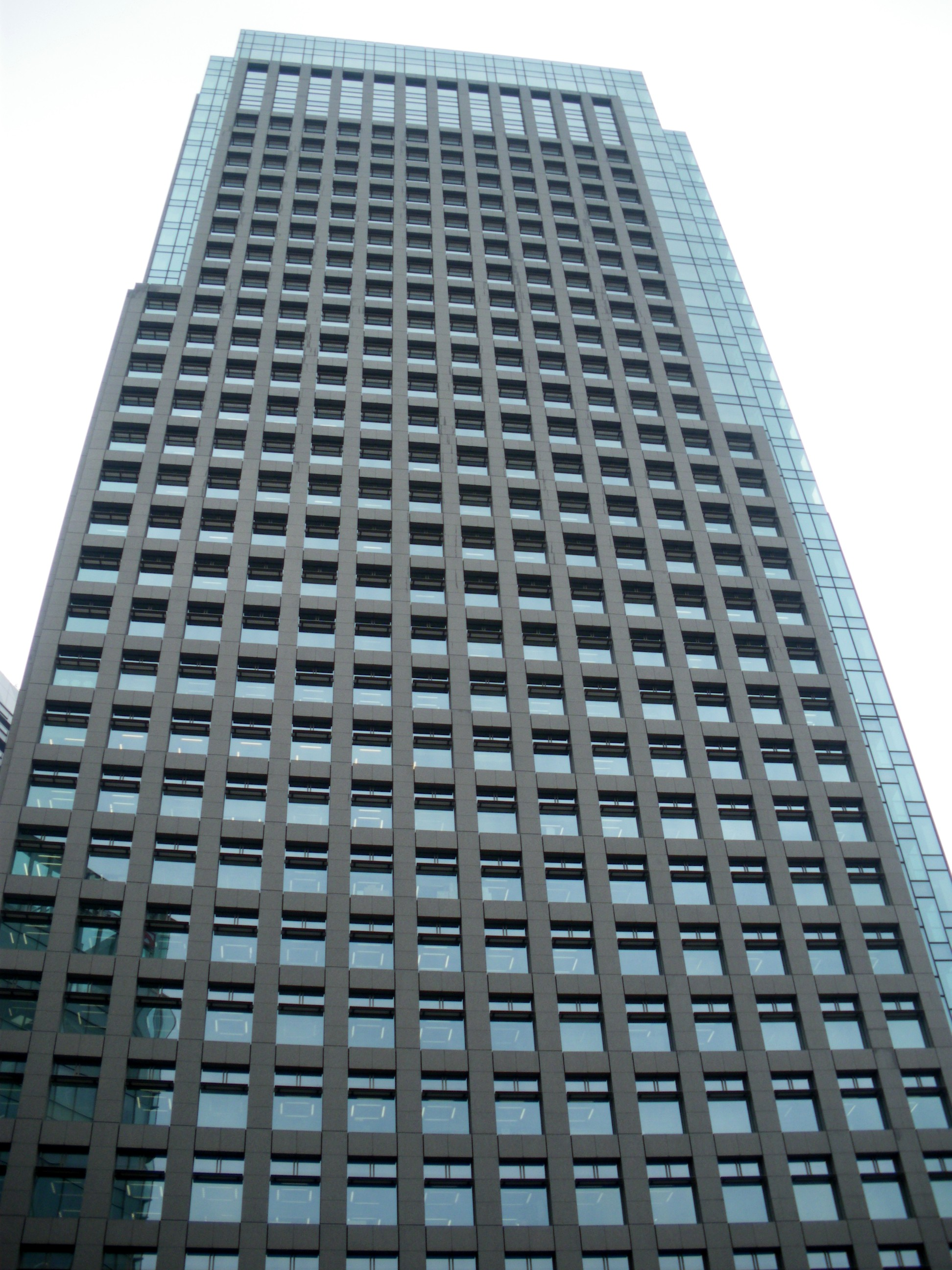 Garden Air Tower (Iidabashi, Chiyoda, Tokyo)